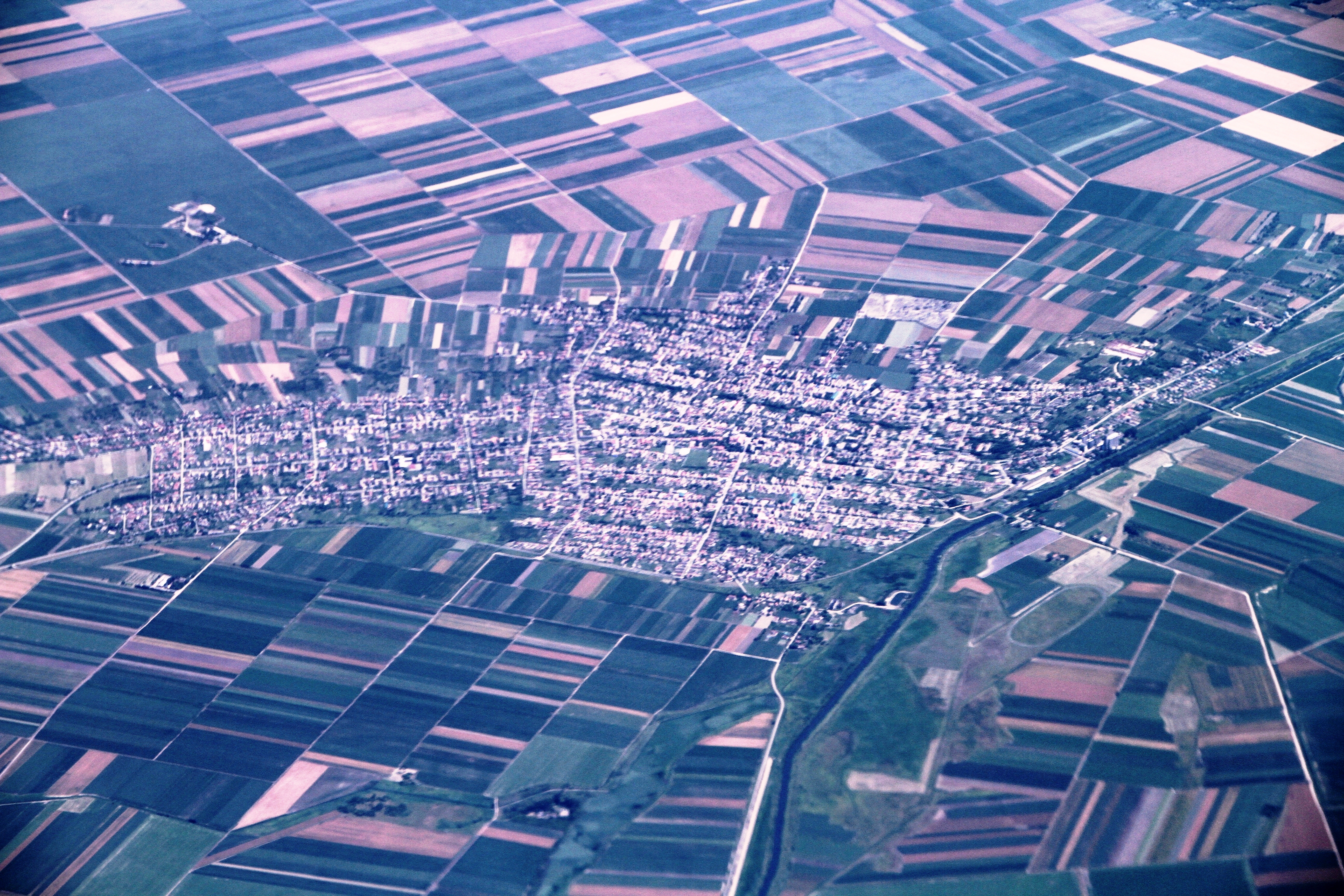 Aerial view from the west towards east, of the Sivac area in Vojvodina, northern Serbia